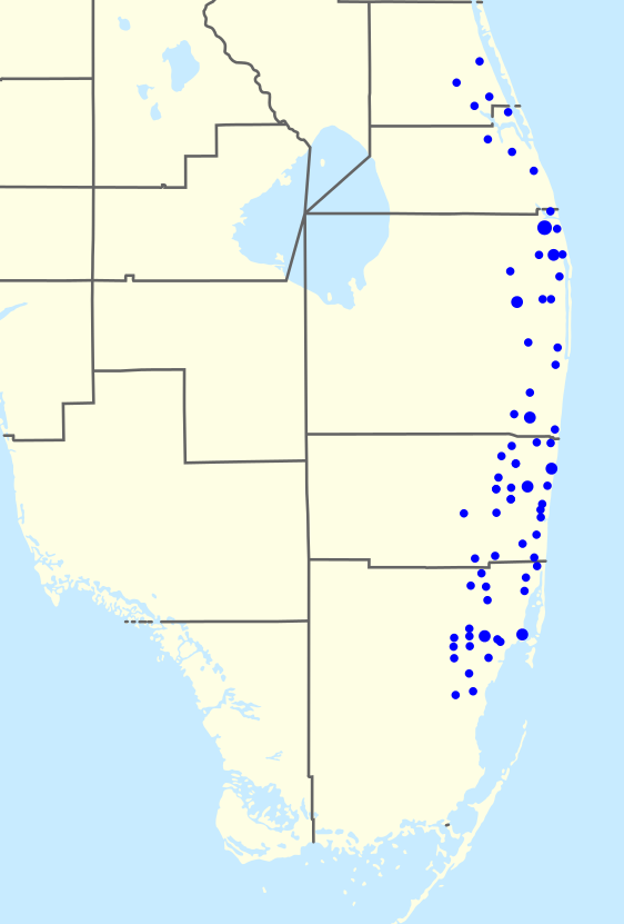 Approximate footprint of BankAtlantic within the southern part of Florida. Zip codes with more than one branch have progressively larger points.